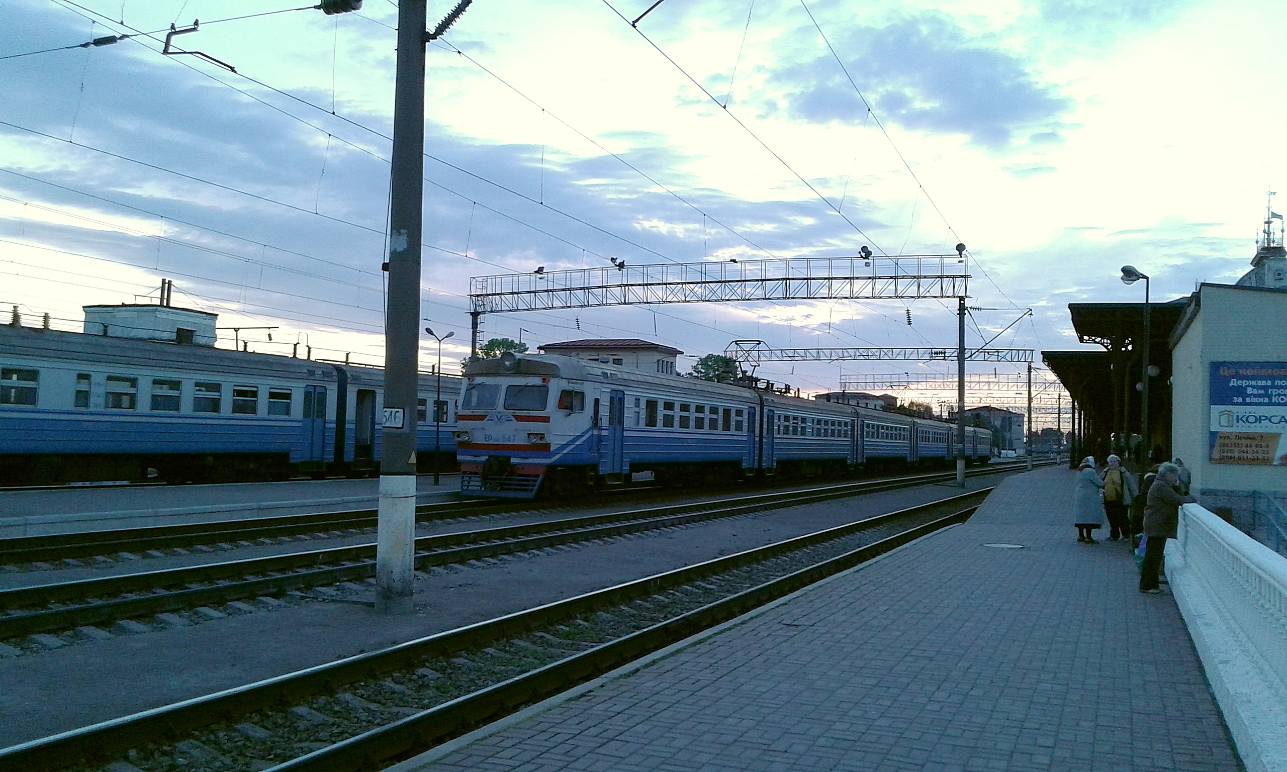 (5) RAILWAY STATION IN CITY OF ZHMERYNKA REGION OF VINNYTSIA STATE OF UKRAINE PHOTOGRAPH BY VIKTOR O LEDENYOV 20160509